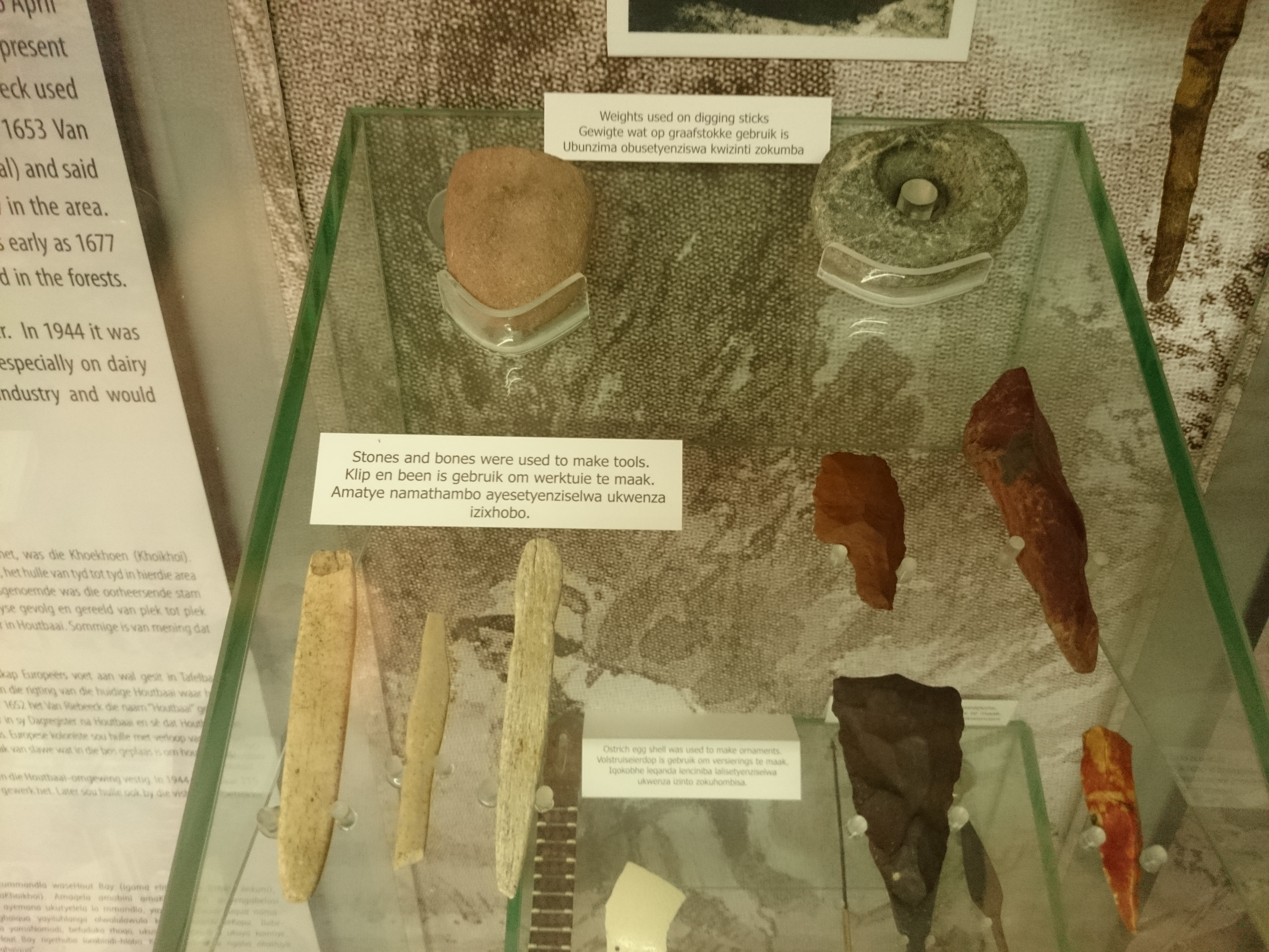 Hunting tools of the early people who lived in Hout Bay known as Khoikhoi. Some are tools made of stones.